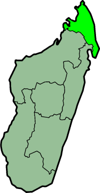 Antsiranana, province of Madagascar